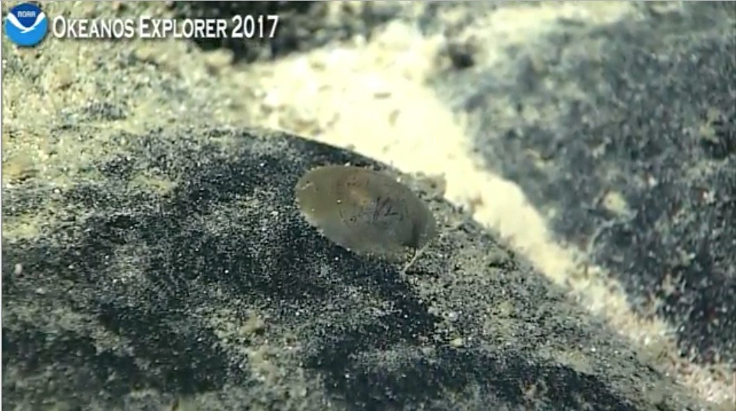 A rare monoplacophoran (Neopilina sp.) observed in the abyss by the NOAA Okeanos Explorer mission "2017 American Samoa Expedition: Suesuega o le Moana o Amerika Samoa". Further information on Echinoblog.